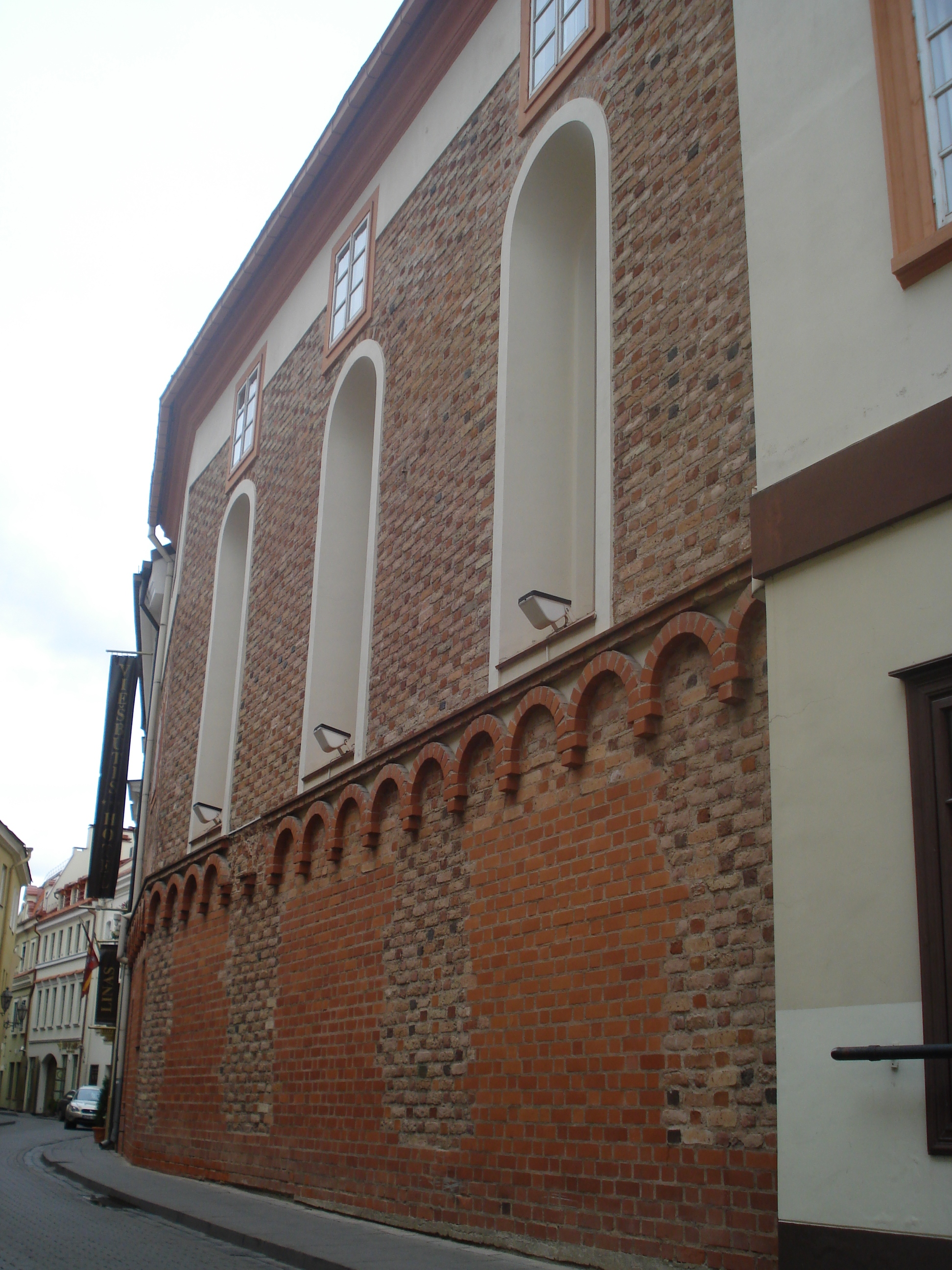 Remainder of the Gothic Orthodox Church of the Resurrection in Vilnius. Build in XVI. Now – Genocide and Resistance Research Centre of Lithuania (Lietuvos gyventojų genocido ir rezistencijos tyrimo centras) at Stiklių g. 1 / Didžioji 17 Streets